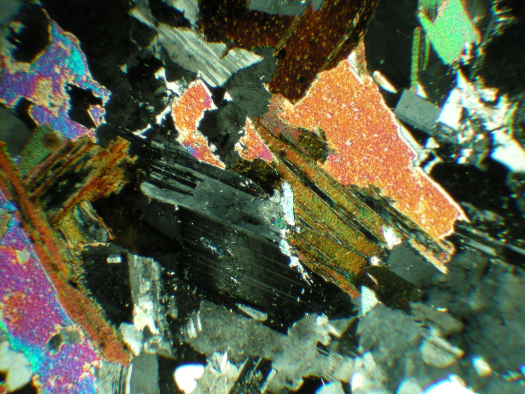 Microphotograph of granite in the polarized light . Plagioclase, quartz and mica are seen at # polarizers.